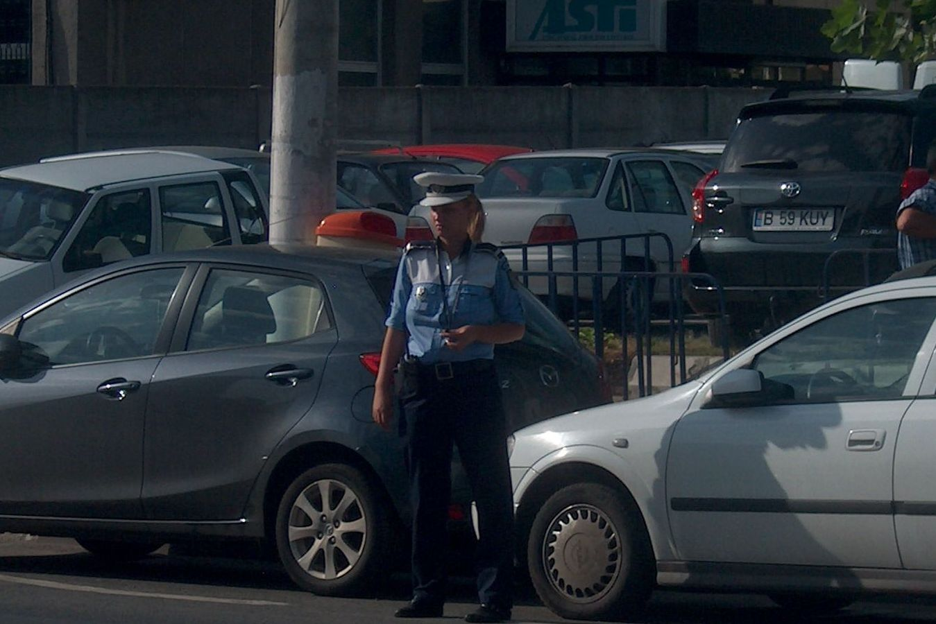 Police woman in traffic, Bucharest, 2009